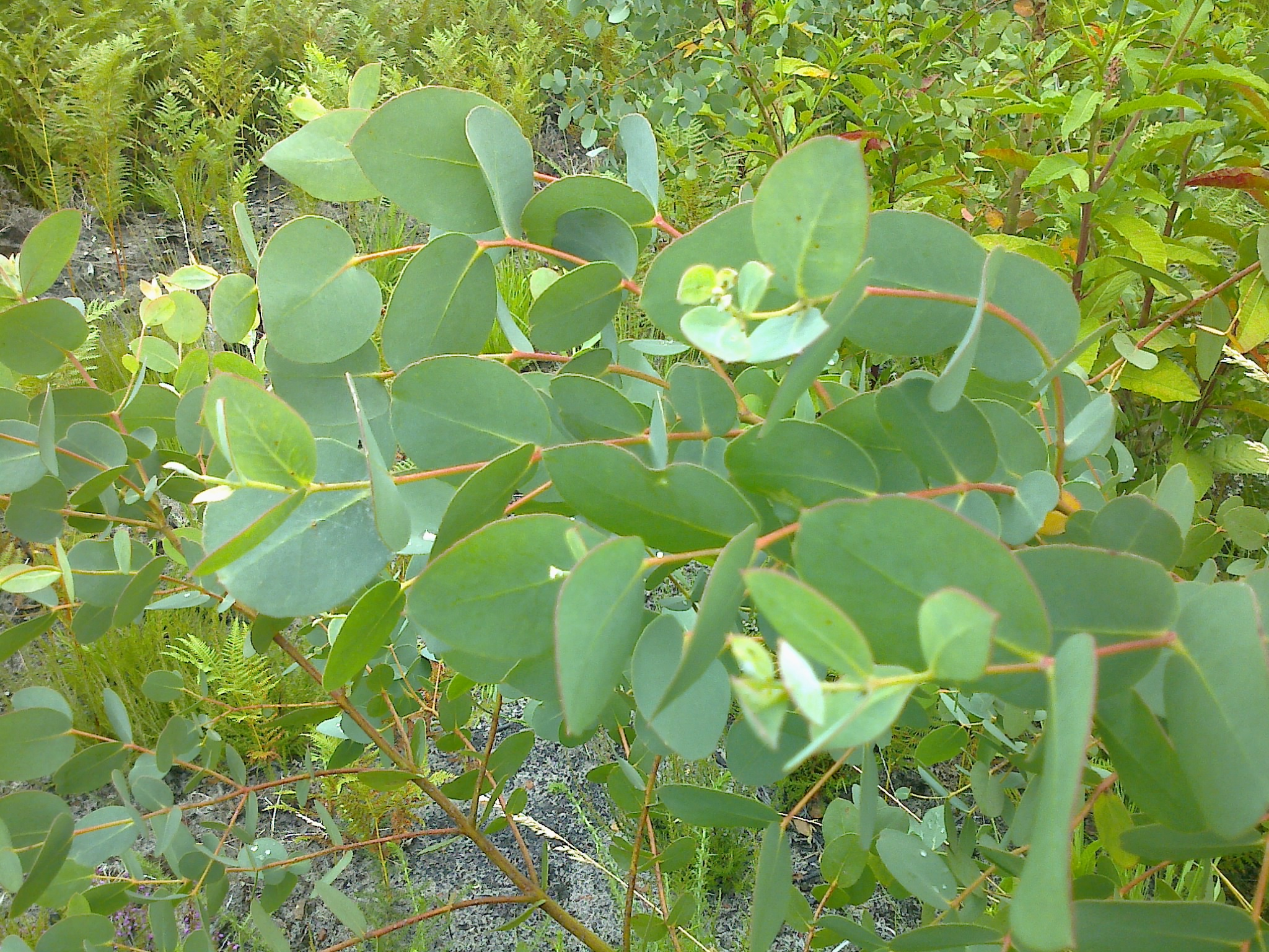 Picture of the juvenile leaves of E. gundal, taken in Aquitaine, France.